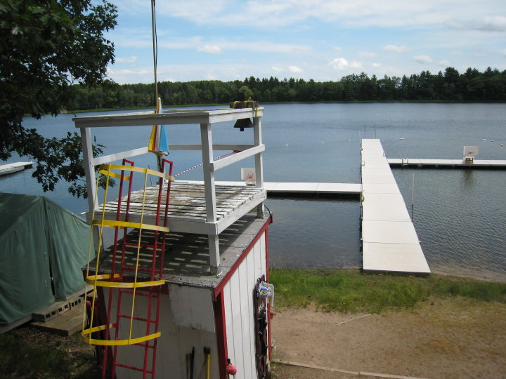 Taken in July 2010 from the platform overlooking Lake Emrick in Camp Freeland Leslie BSA.